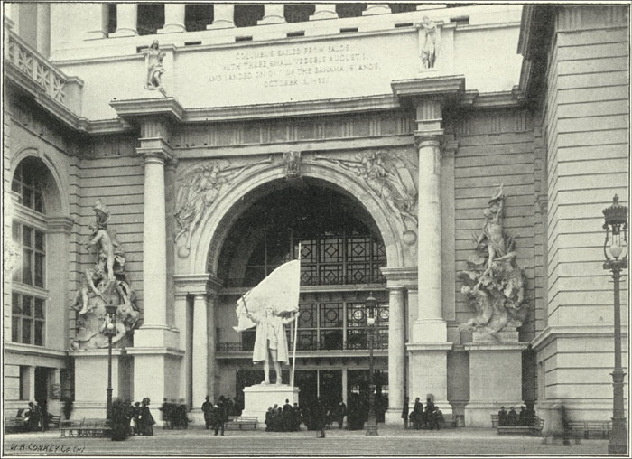 Large statue of Christopher Columbus by Augustus St. Gaudens. (or Mary T. Lawrence or Louis St. Gaudens). Outside of Administration Building. World's Columbian Exposition. Digitial Identifier: GN90799d_CON_077w World's Columbian Exposition Collection at The Field Museum